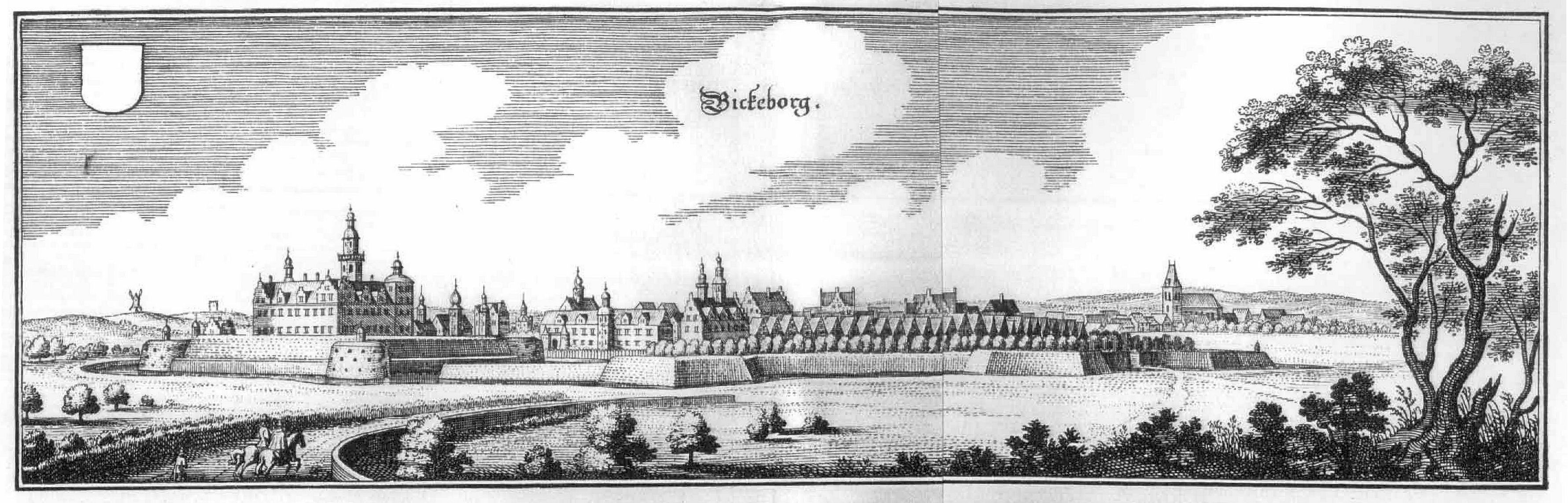 This is a scan of the historical document